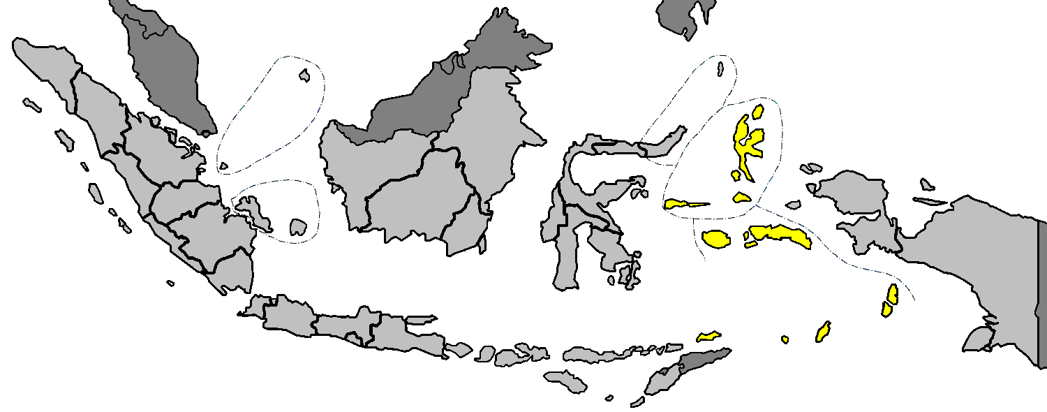 locator map of Indonesian islands